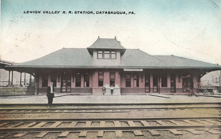 1910 postcard depicting the Lehigh Valley Railroad station in Catasauqua, Pennsylvania.